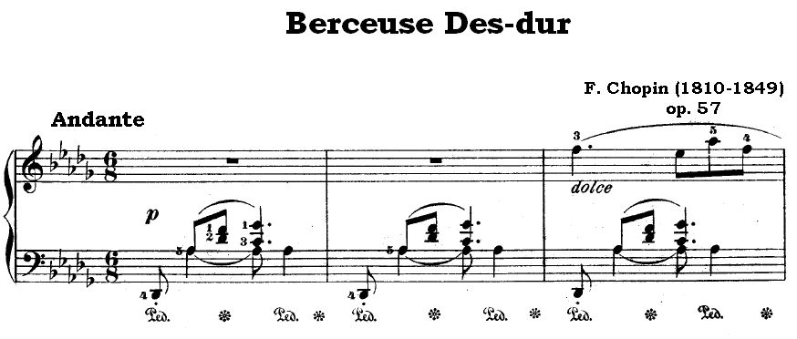 Berceuse D flat major op. 57 - F. Chopin